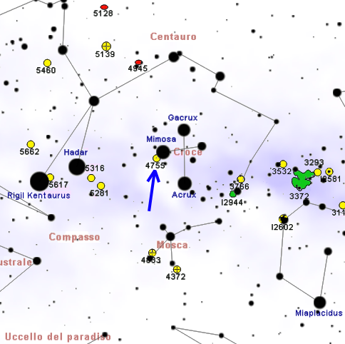 NGC 4755